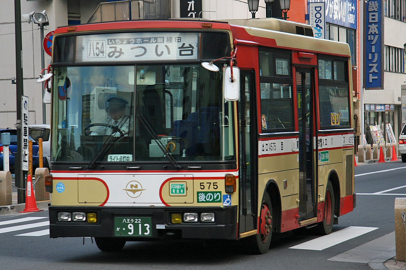 Nishi Tokyo Bus's route bus (Car No.A575 / Nissan Diesel KC-RN210CSN / FHI 8E body) at Hachioji Station North, Hachioji, Tokyo, Japan